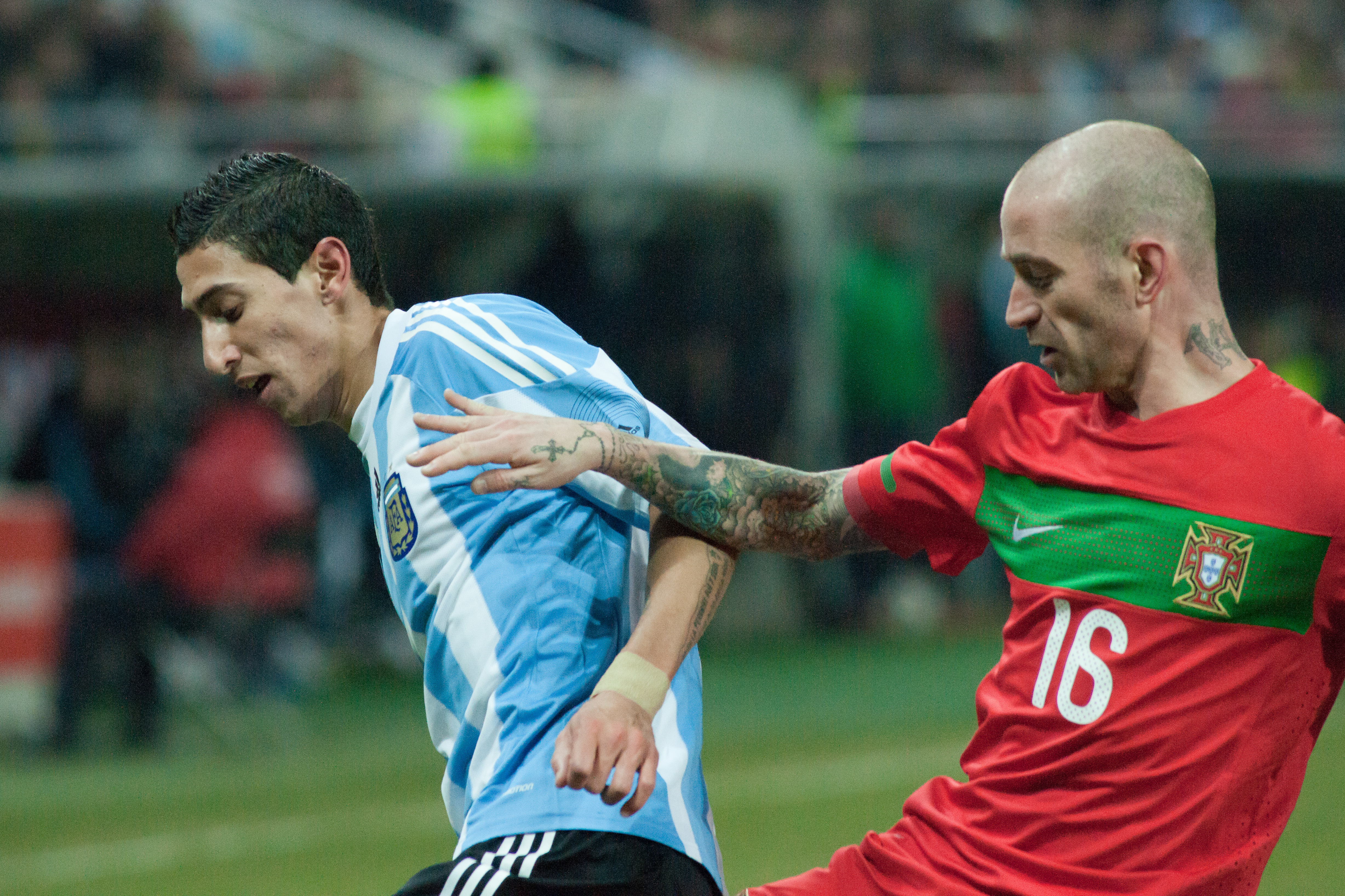 Portugal - Argentina, 9th February 2011.